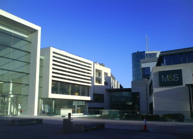 It's the Town Centre and the Civic Centre in Athlone.